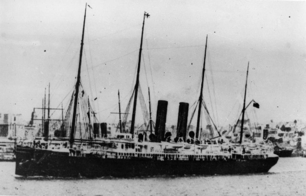 Pacific Steam Navigation Co 6,077 GRT liner Orizaba